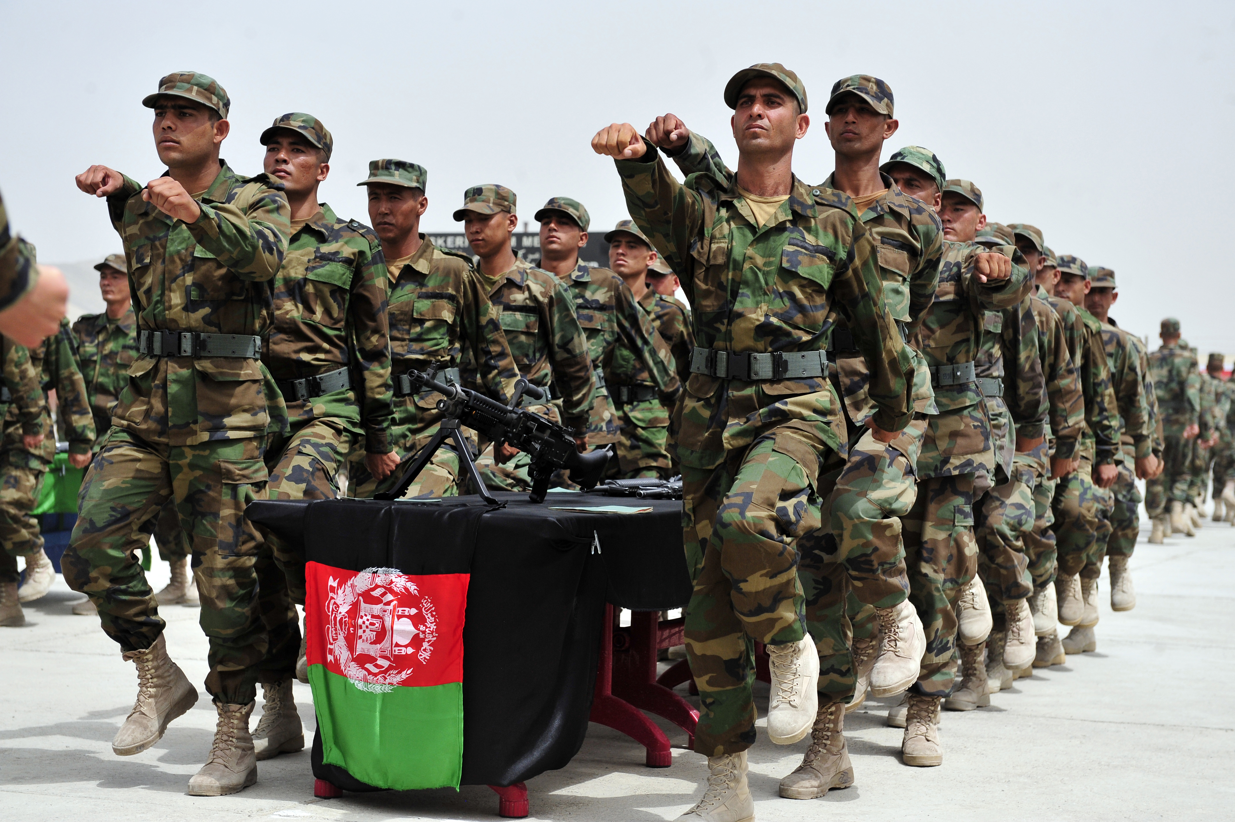 Non Commissioned Officers of the Afghan National Army, recite the oath ceremony of the first term bridmals, July 15th, at the Gazi Military Training Center, Kabul, Afghanistan. Gazi Military Training Center was established February 2, 2010, by Turkish Armed Forces, Afghan National Army Training and Doctrine Command's, and NATO's Training Mission-Afghanistan. (U.S. Air Force Photo by Staff Sgt. Bradley Lail) (Released)